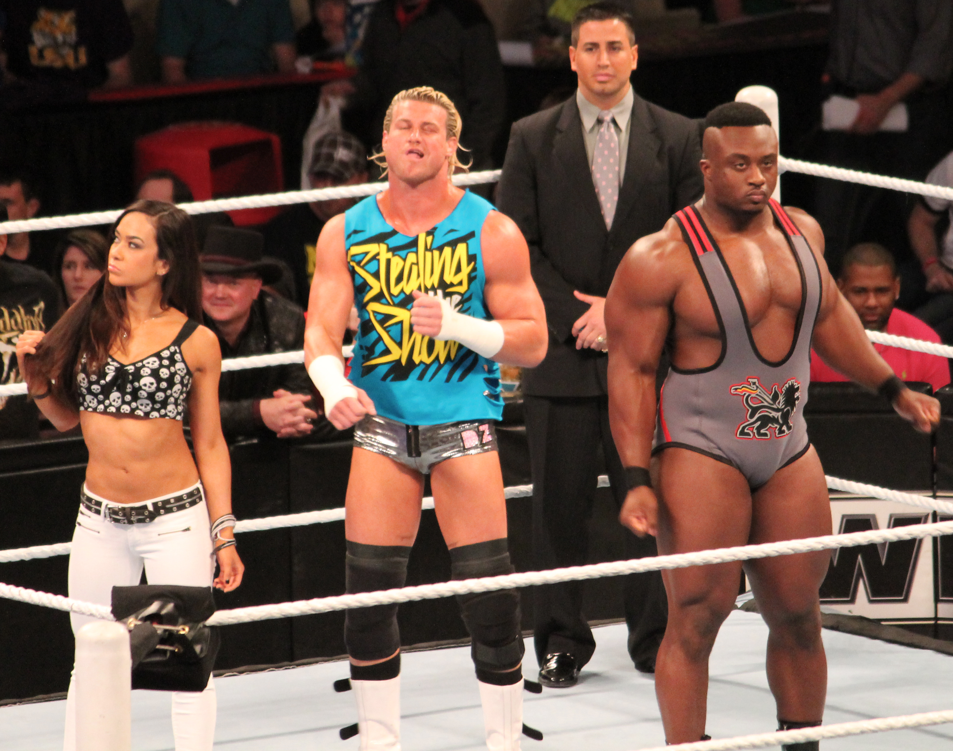 Dolph Ziggler, flanked by AJ Lee (left) & Big E Langston (right), preps for a match against Alberto Del Rio on WWE RAW (Feb. 18, 2013). Originally taken by Megan Elice Meadows in Lafayette, LA.